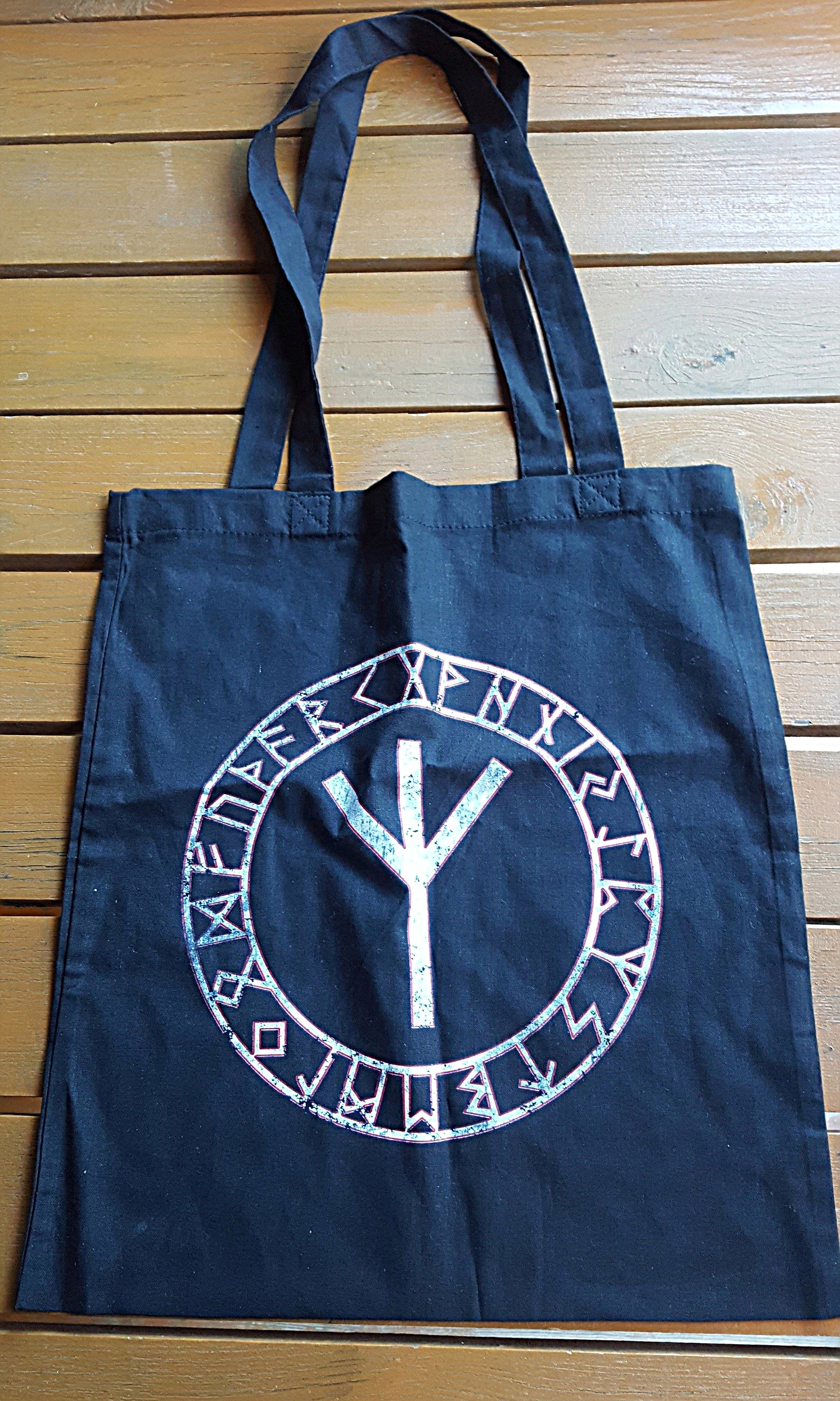 Cotton bag with the runes of the Elder Futhark and a big Algiz rune.